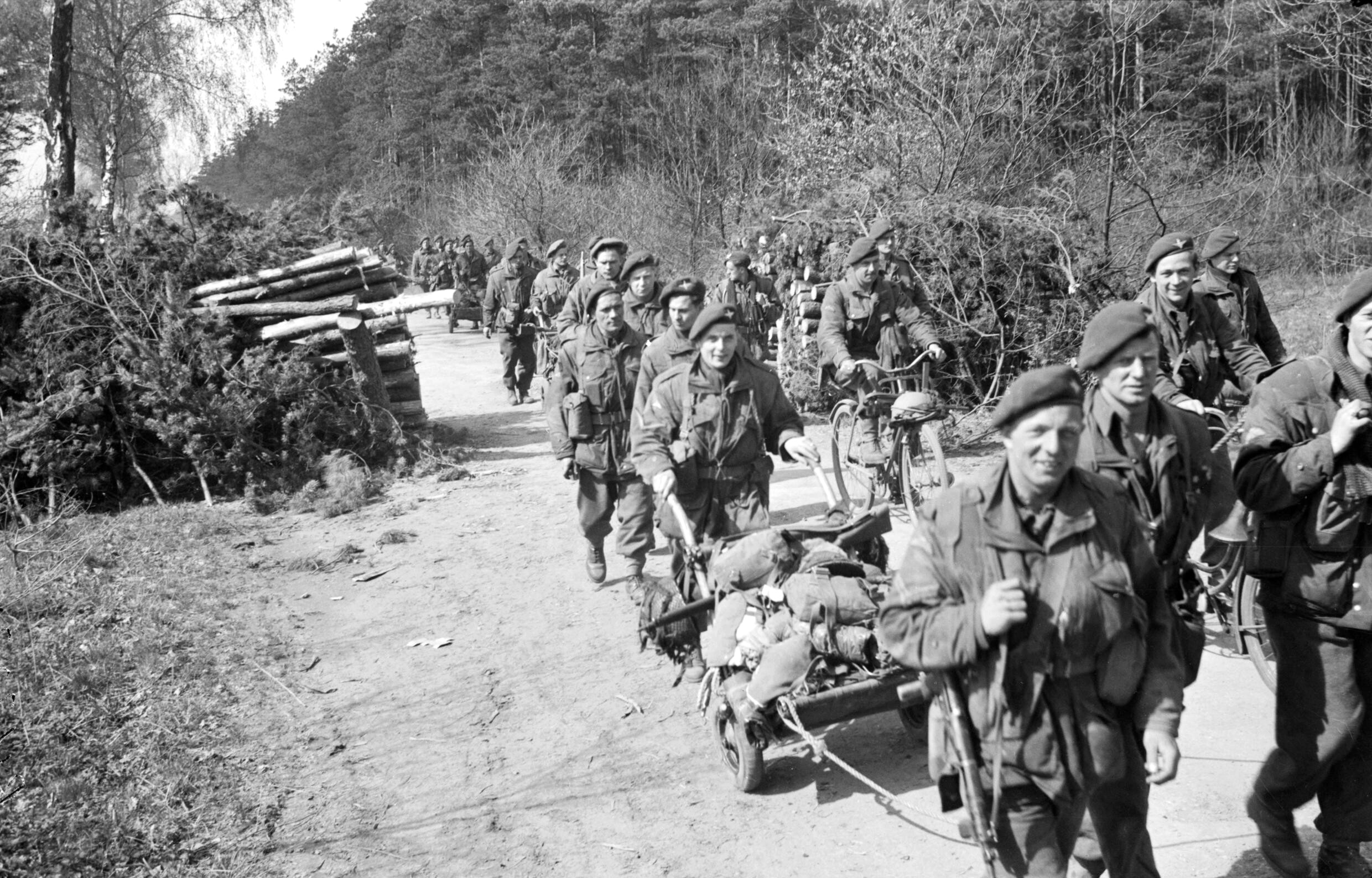 Men of 6th Airborne Division advancing near Brelingen, 10 April 1945. Note the handcarts and bicycles. Identified as the 9th Battalion on .